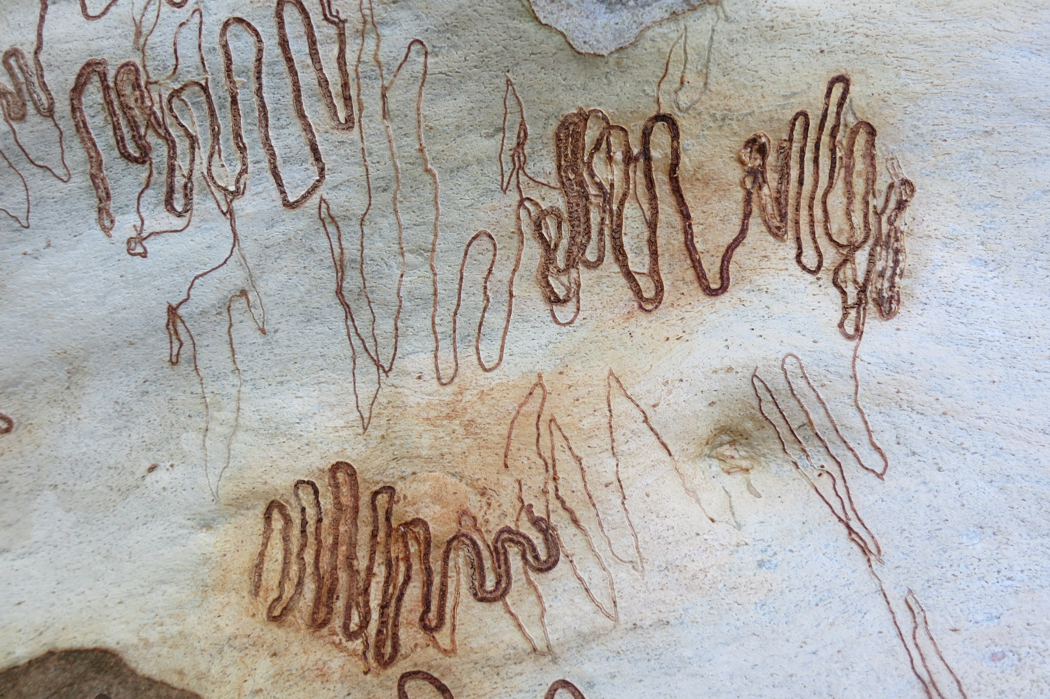 Scribbles on Eucalyptus haemastoma, McKay Reserve, Palm Beach, NSW.